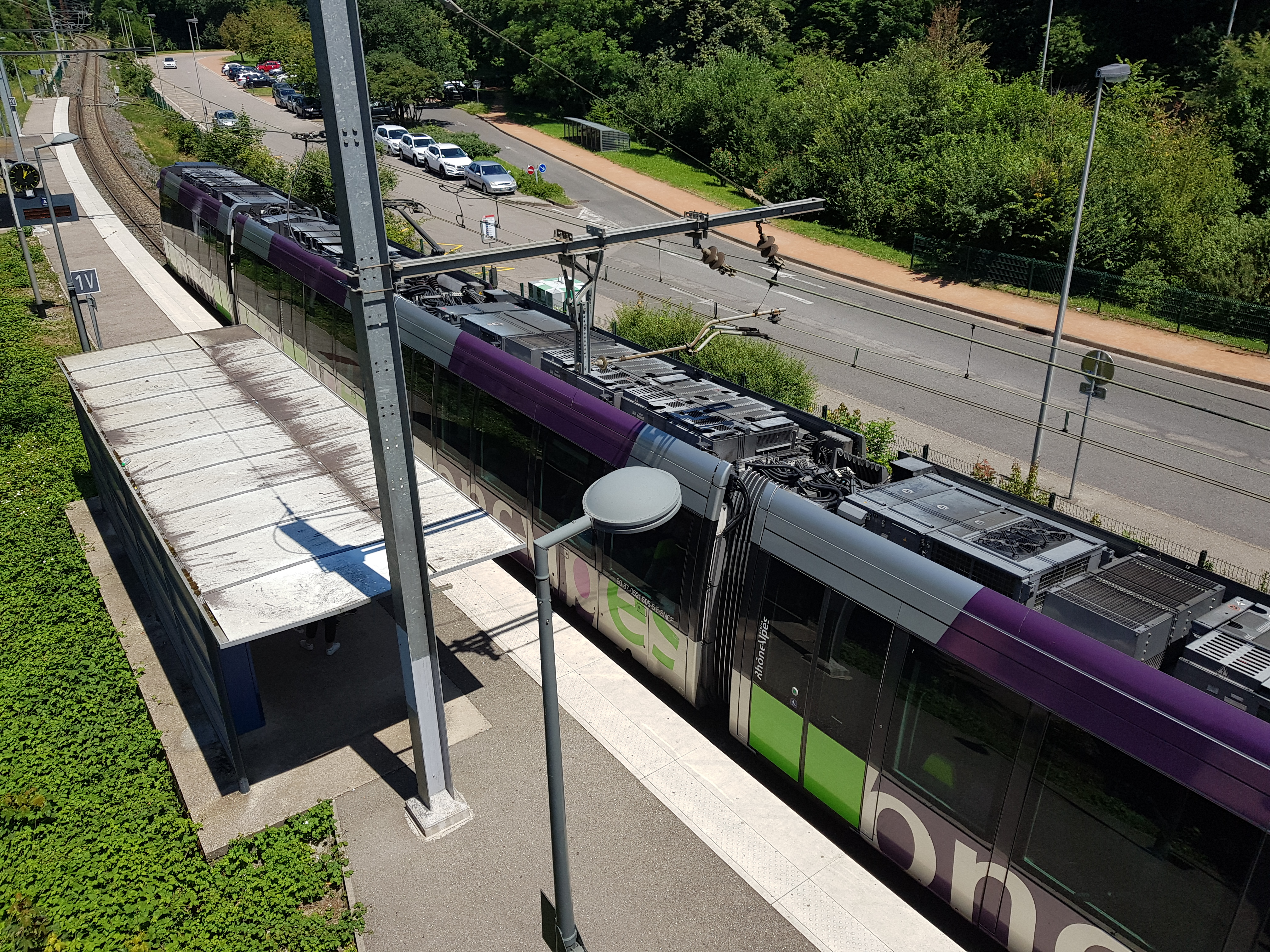 Le Méridien railway station, Charbonnières-les-Bains, France